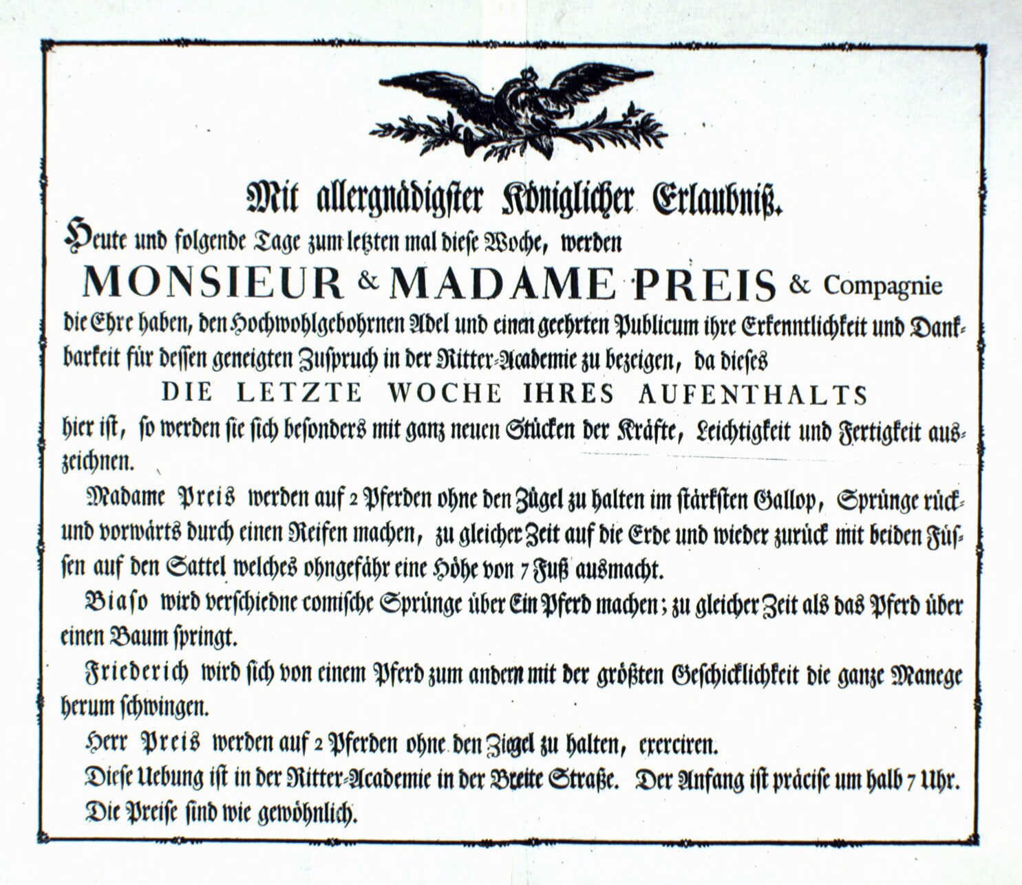 "Monsieur & Madame Preis, & Companie". Circus poster from 1787 publishing a show in Copenhagen by British Price-family, spelling their name in German language as "Preis". The authorities never gave permission and the family continued to Sweden, but returned to Denmark in 1795. The Price-family settled in Denmark.